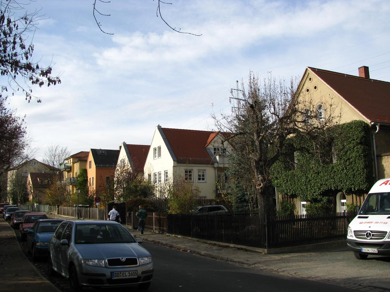 Altloebtau (Dresden, Germany)